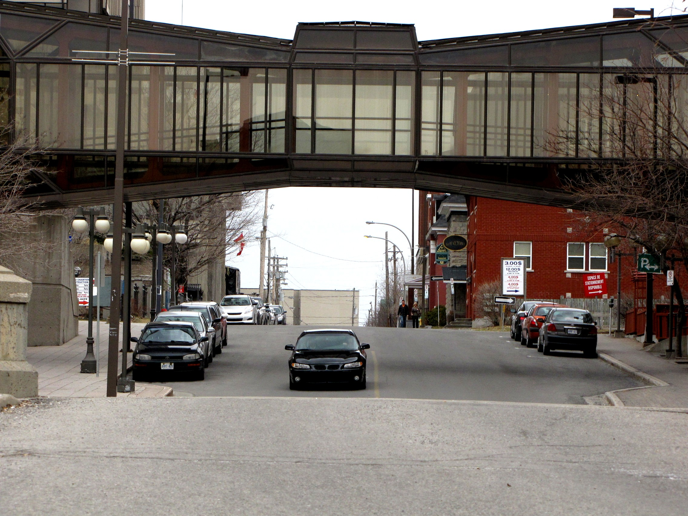 Footbridge connecting the Sheraton Hotel to the Maison de la culture (Gatineau City Hall) on Laurier St., Hull area, Gatineau, Québec.